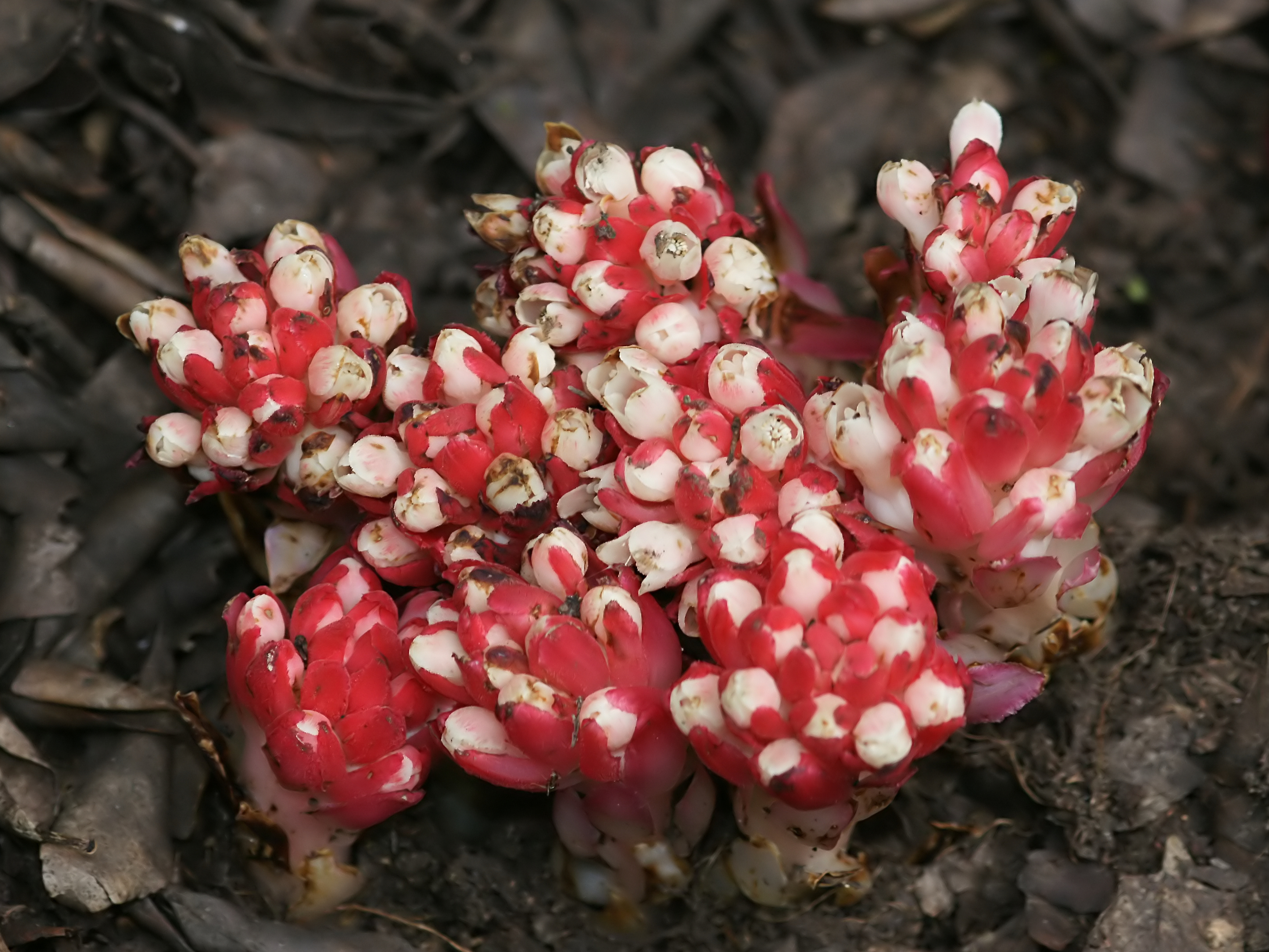 A chlorophyll lacking root-parasite of pink flowering Cistus bushes on the way to Su Gorropu, Sardinia, Italy